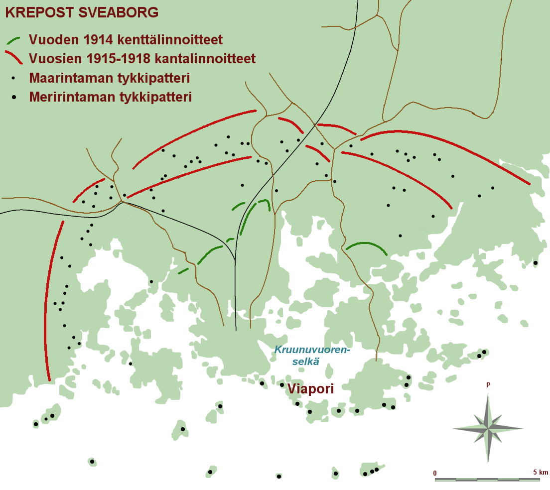 A map of Krepost Sveaborg, the land and sea fortification of Helsinki during the First World War.